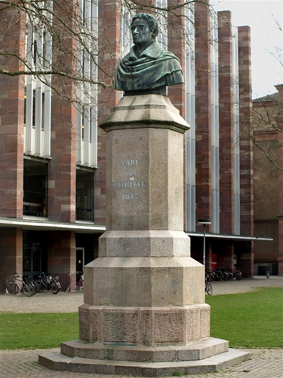 Freiburg in Breisgau, Baden-Württemberg (Germany), Rotteck-memorial, photo 2009